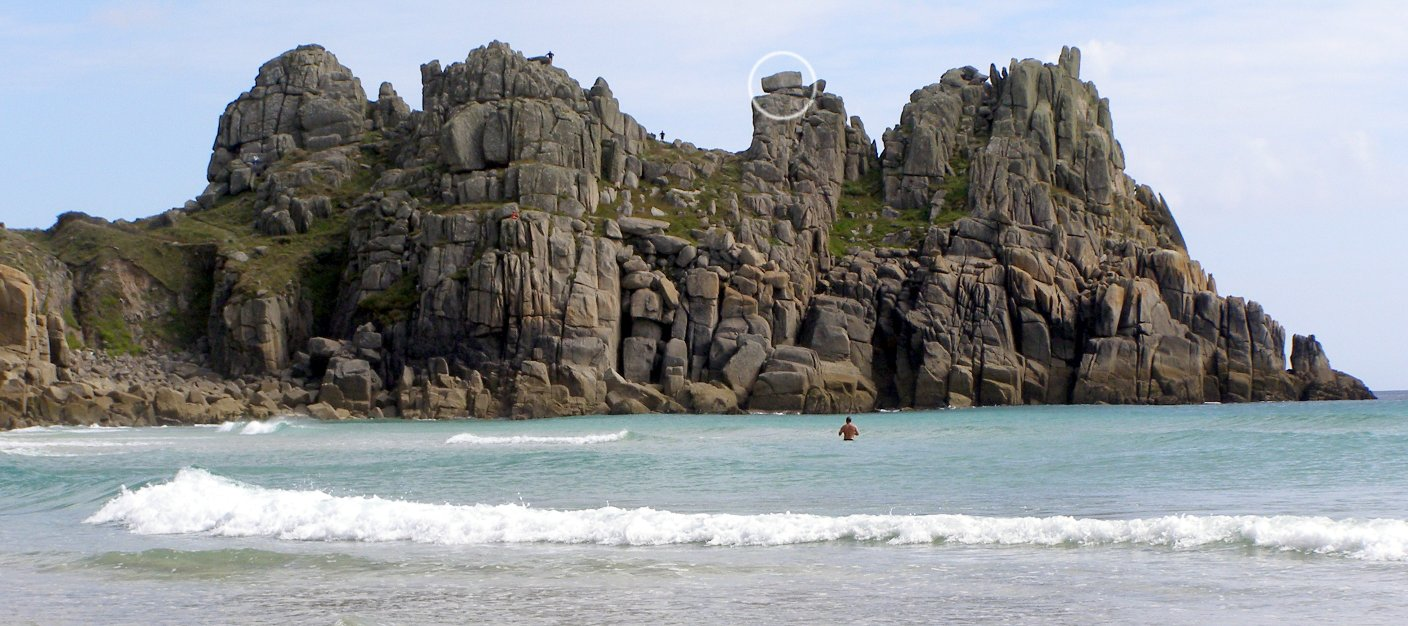 Logan Rock headland (with the Logan Rock circled) from the Pednvounder beach sand bar at low tide. Near Porthcurno, Cornwall, U.K.